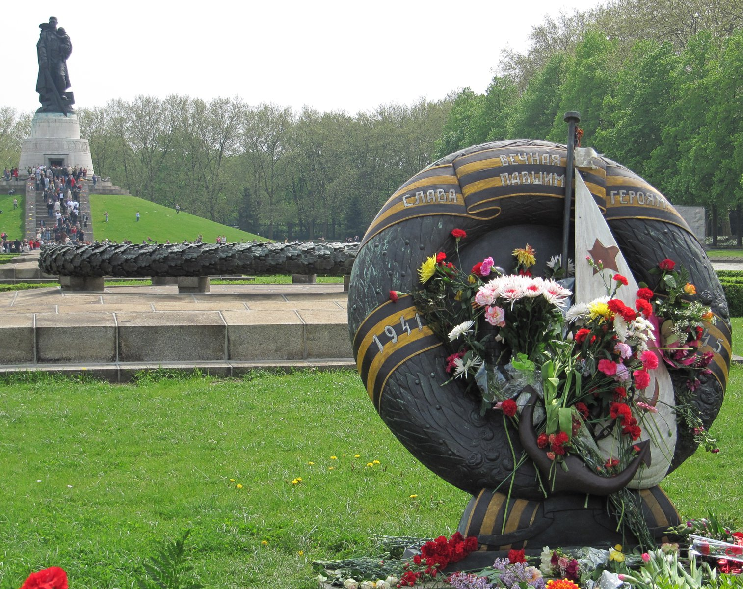 Celebration on the 65. anniversary of the (russian) victory day in Berlin, Germany, at the Soviet War Memorial in Treptow.